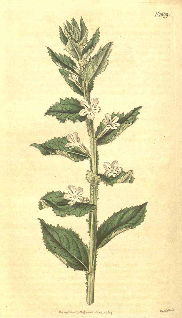 Oftia africana (L.) Bocq. [as Spielmannia africana Willd.] Curtis’s Botanical Magazine, t. 1860-1941, vol. 44: t. 1899 (1817) [n.a.]